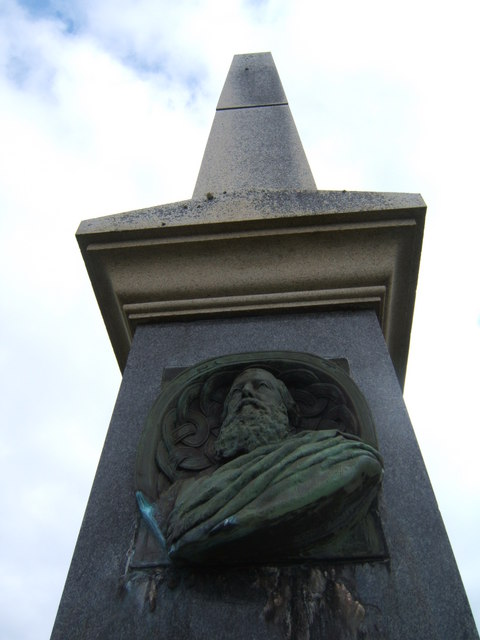 Bronze Bust of Iain Og Ile John Francis Campbell was known throughout Gaeldom as Iain Og Ile (young Ian of Islay). He was the son of Walter Frederick Campbell, who developed settlements on the island: Port Ellen (1821) was named for his wife Eleanor; Port Charlotte(1828), which he called after his mother; Kiells (1829); and Port Wemyss (1833)- Eleanor was a daughter of the 8th Earl of Wemyss. Walter was declared bankrupt in 1848, so John Francis inherited nothing, and had to find his own way in the world. He travelled widely, documenting these journeys with his own highly-skilled water-colour paintings, and held many important public service appointments, including being a member of the Royal Household from 1860-1880, serving at Windsor and at Osborne House. He collected and published Gaelic folk stories, recounting tales exactly as they were spoken. (Source: "Islay" by Norman Newton, supporting info gleaned from various leaflets and local people ... the island is very welcoming, people talk easily and freely: I have never been made to feel like a passing 'Sassenach' !)